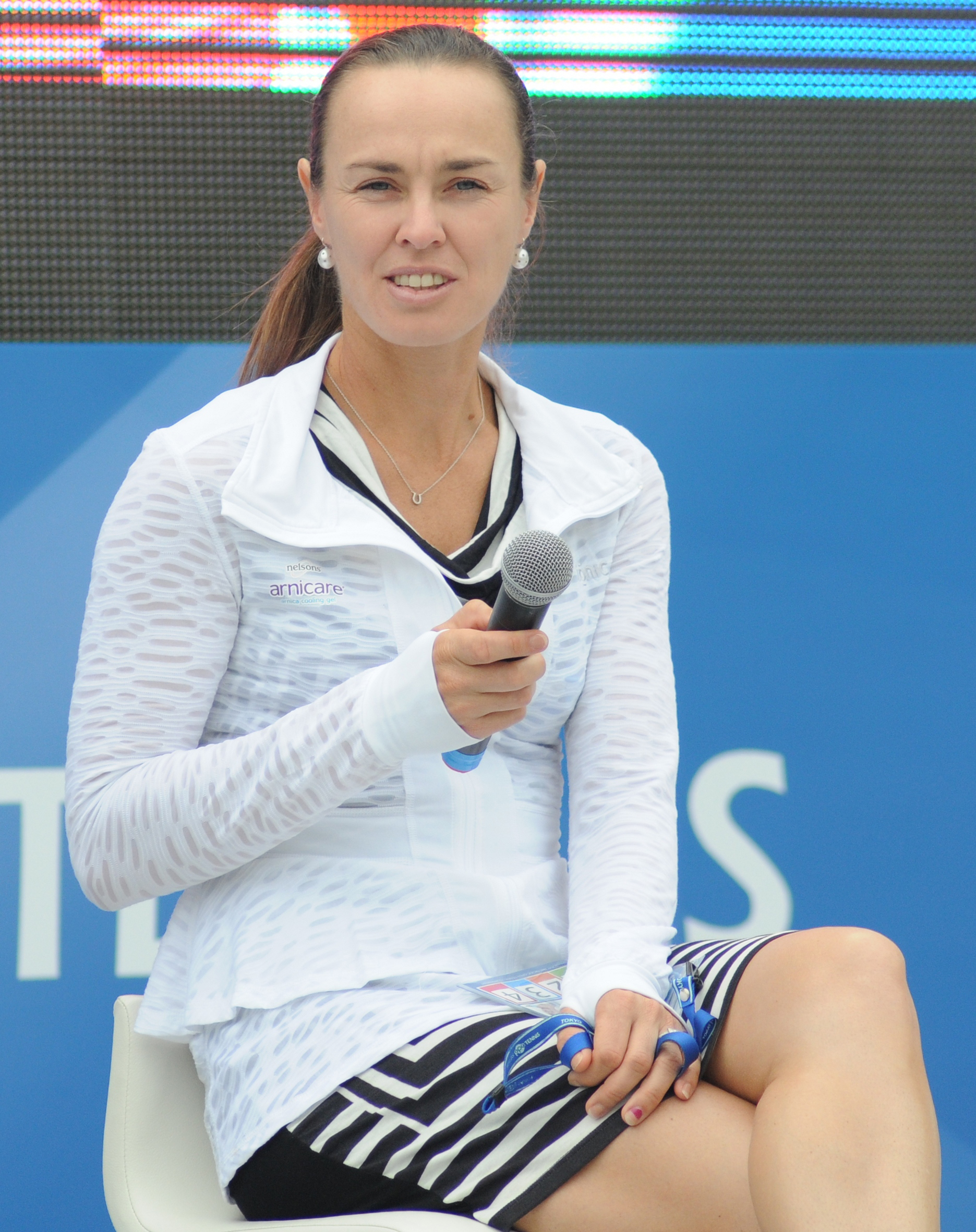 Martina Hingis at the 2014 Toray Pan Pacific Open